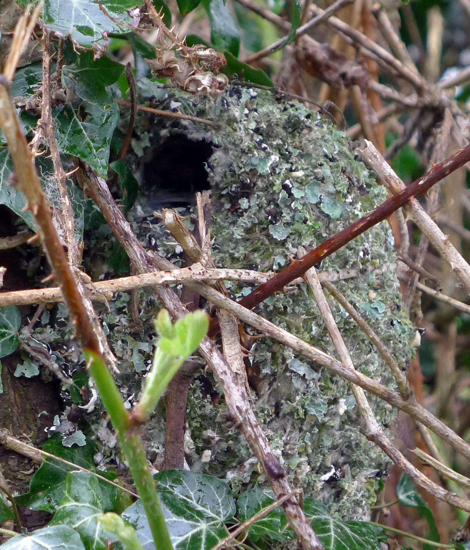 Completed Domed Nest Of Long-tailed Tit